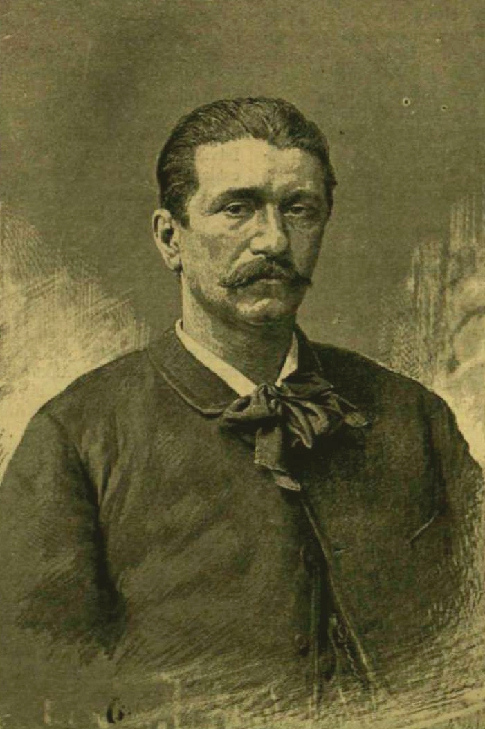 Ernő Bokelberg.